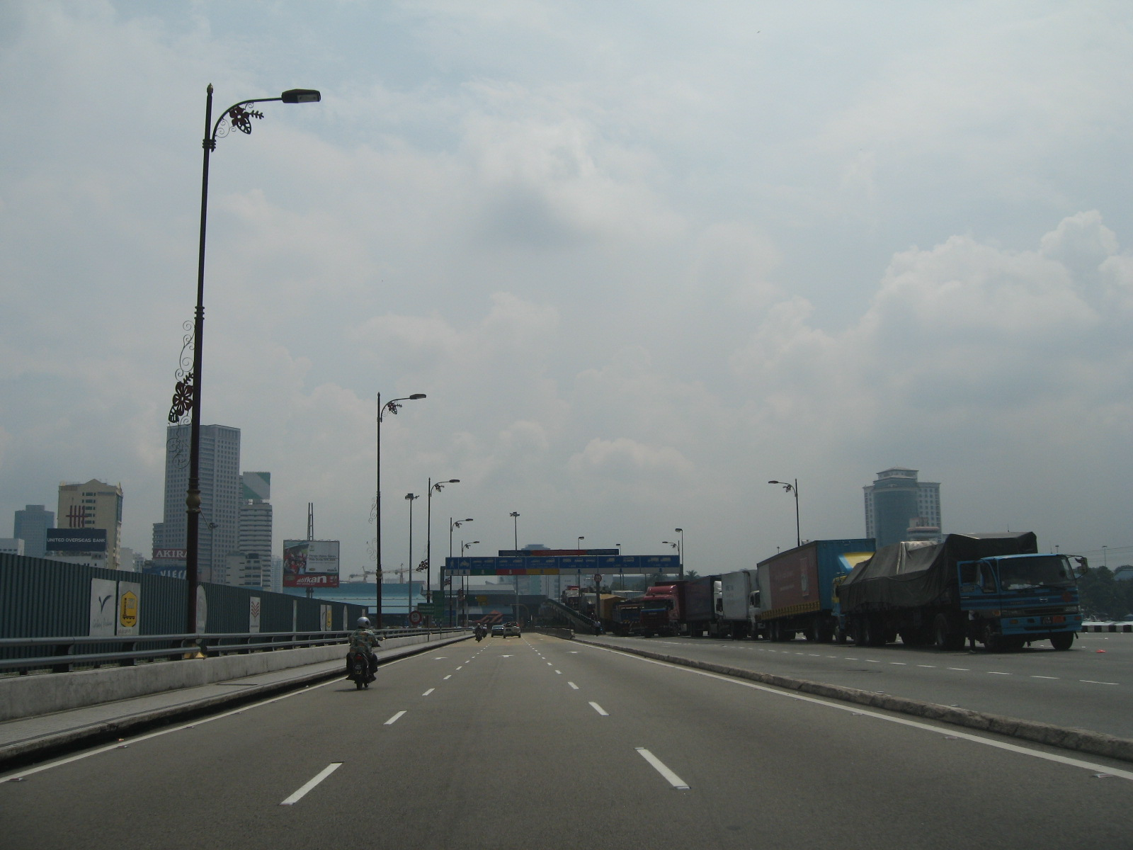 Johor-Singapore Causeway towards Johor Bahru.